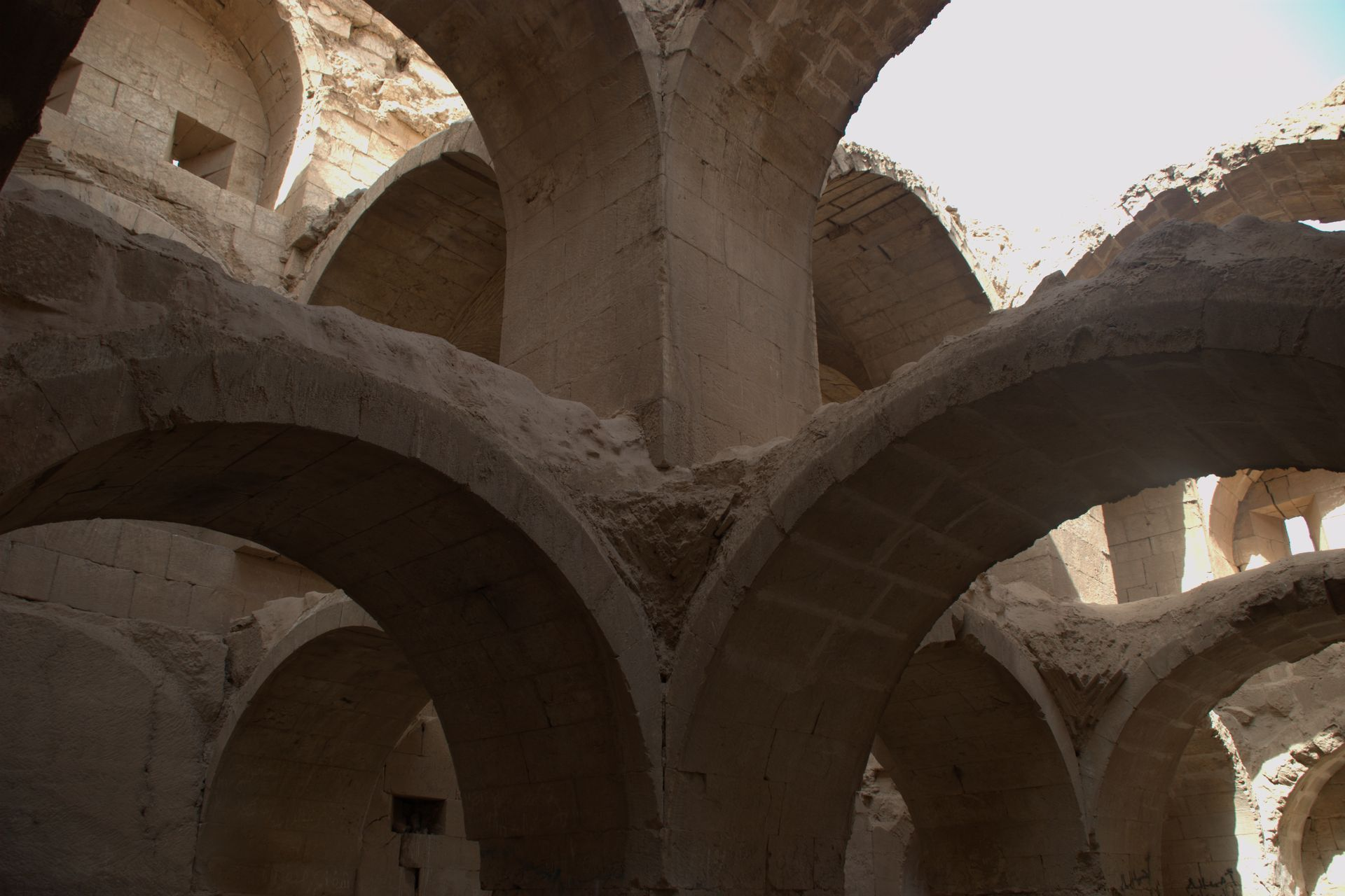 Halabiya, Zenobia, Syria. Praetorium